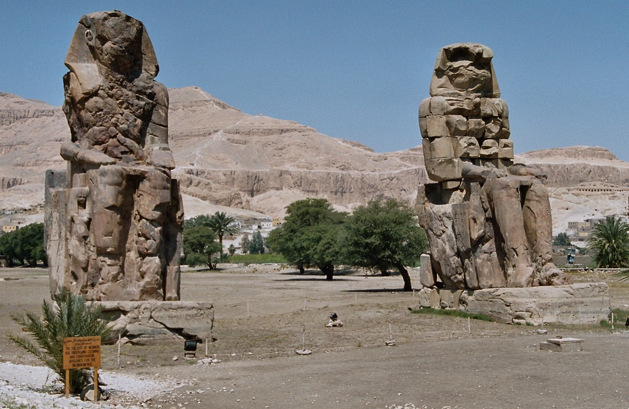 Colossi of Memnon, Luxor